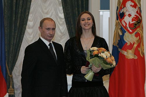 THE KREMLIN, MOSCOW. Ceremony for the presentation of state awards. Bolshoi Theatre ballerina Svetlana Zakharova receives the title People's Artist of Russia.